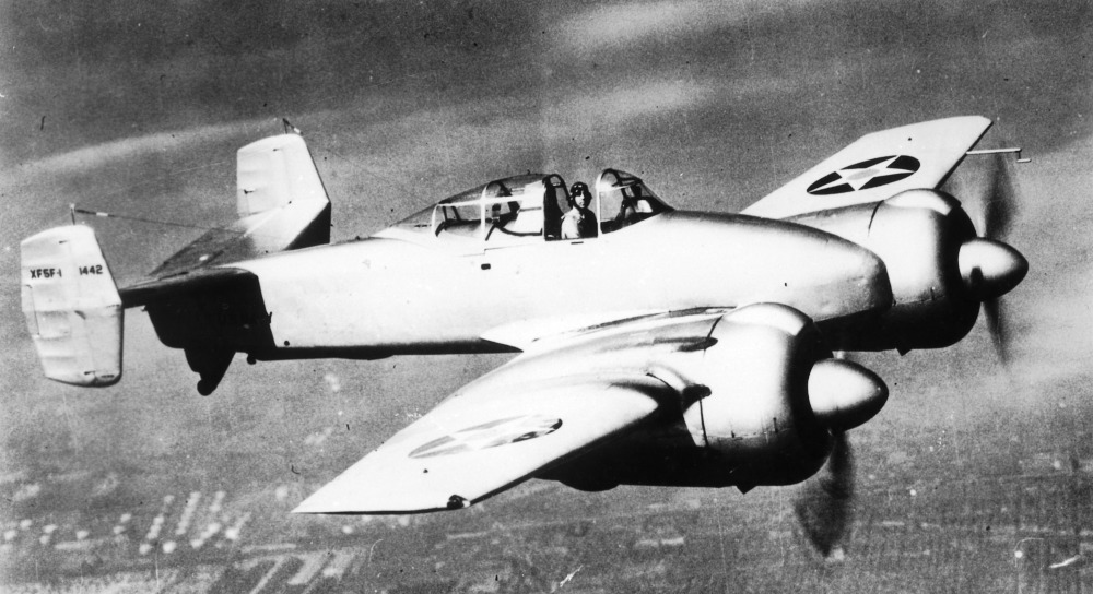 PictionID:41545702 - Title:Ray Wagner Collection Image - Catalog:16_000452 Grumman XF5F-1 1442 NASM - Filename:16_000452 Grumman XF5F-1 1442 NASM.tif - - - Image from the Ray Wagner Collection. Ray Wagner was Archivist at the San Diego Air and Space Museum for several years and is an author of several books on aviation --- ---Please Tag these images so that the information can be permanently stored with the digital file.---Repository: San Diego Air and Space Museum